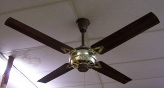 This unusual ceiling fan in Lott, Texas is an example of a KDK product being used in the United States. Picture taken by user Goldrushcavi on December 20, 2006.